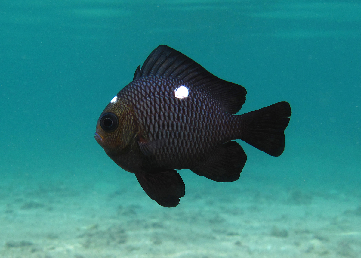 A threespot damselfish (Dascyllus trimaculatus) observed in the laggons of la Réunion.